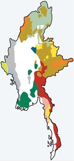 The yellow striped section in the western corner shows the approximate location of the Rohingyas in Myanmar, among the country's other ethnic groups. The Rohingya area extends approximately from the western border down to the city of Sittwe.